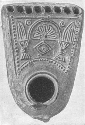 Hanukkah lamp unearthed near Jerusalem, c. 1900. From the 1901-1906 Jewish Encyclopedia, now in the public domain.